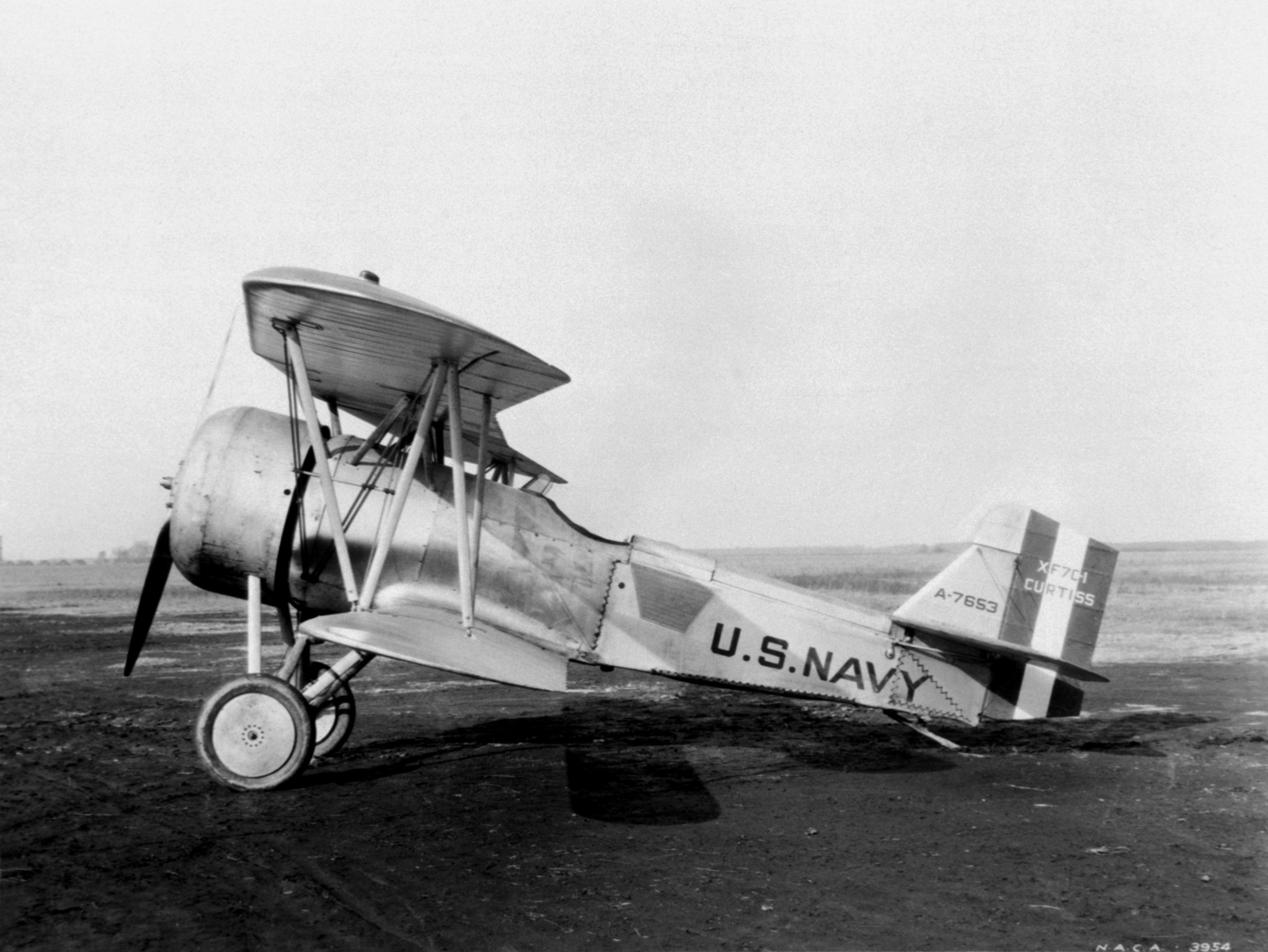 The U.S. Navy Curtiss XF7C-1 Seahawk prototype, 26 June 1929. Designed as a naval shipboard fighter, the Curtiss XF7C-1 Seahawk was used by the NACA to test cowling, including the Langley-developed Variable Angle Cowling. Production F7C-1s in Navy service did not have cowlings on the engines or spinners on the propellers. (Text: NASA)